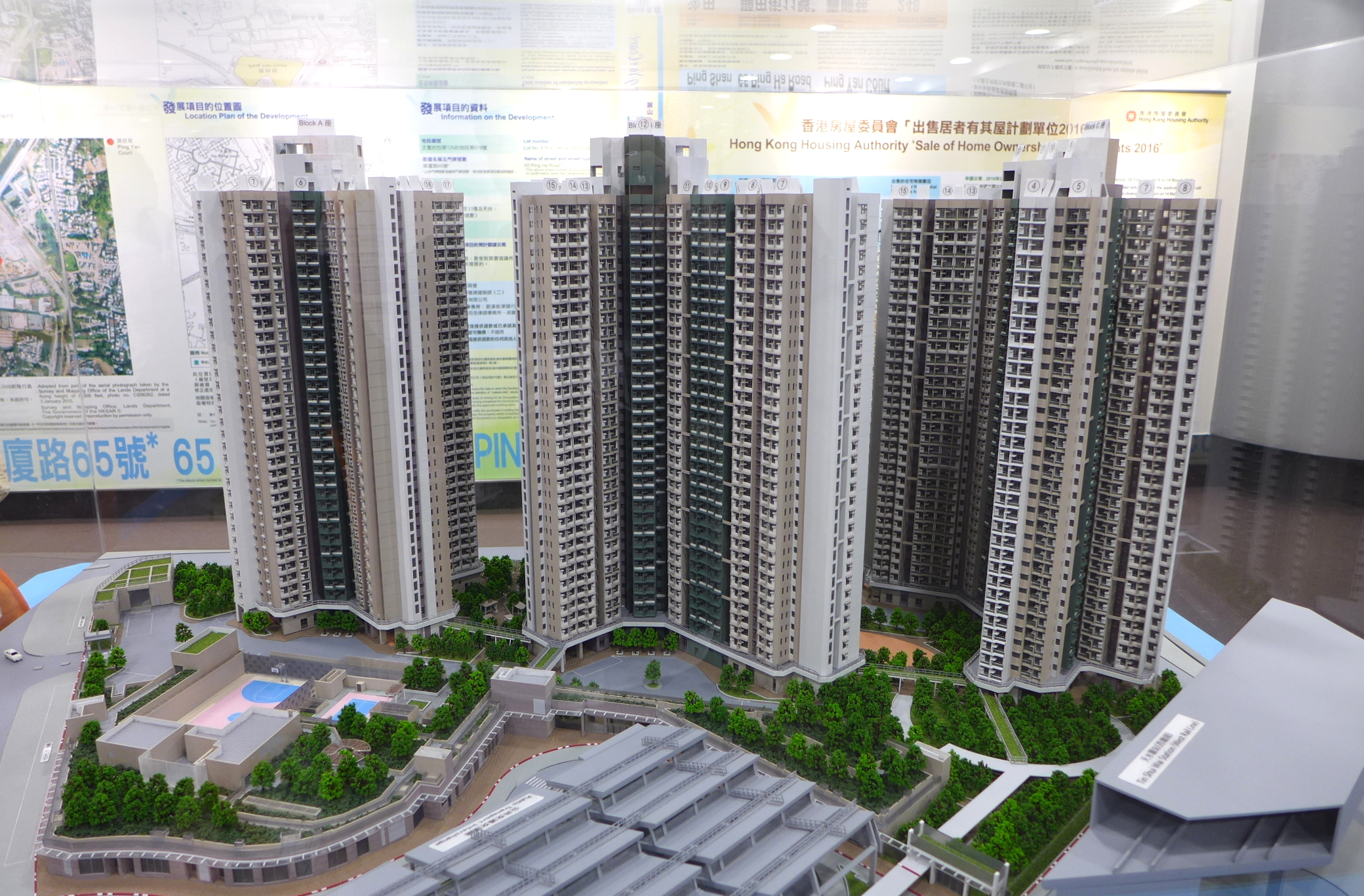 Ping Yan Court Model